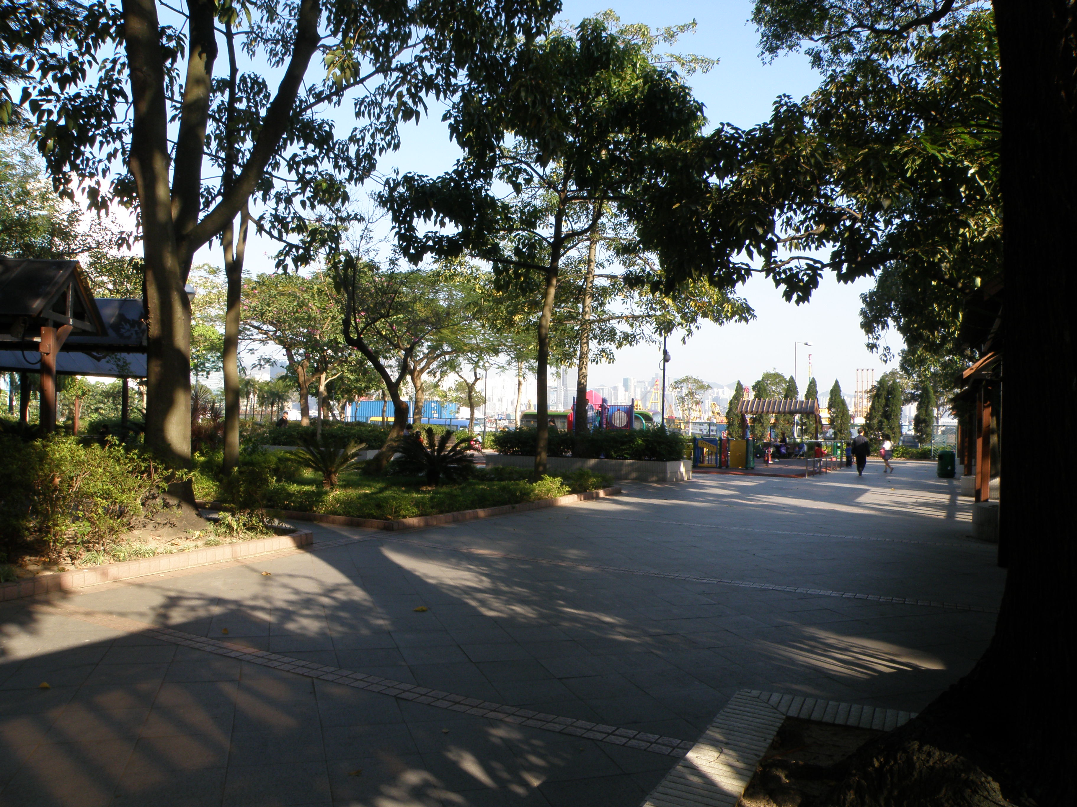 King Wan Street Playground in To Kwa Wan, Hong Kong.